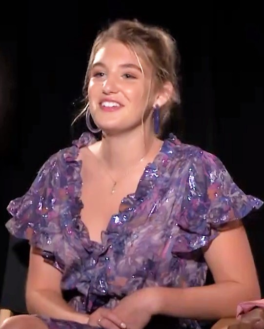 Left to right: Actress Sophie Nélisse interviewed about her film "47 Meters Down: Uncaged" by Dulce Osuna 🦈 Sistine Stallone & Corinne Foxx talk the advice they didn't take from their famous dads by Dulce Osuna